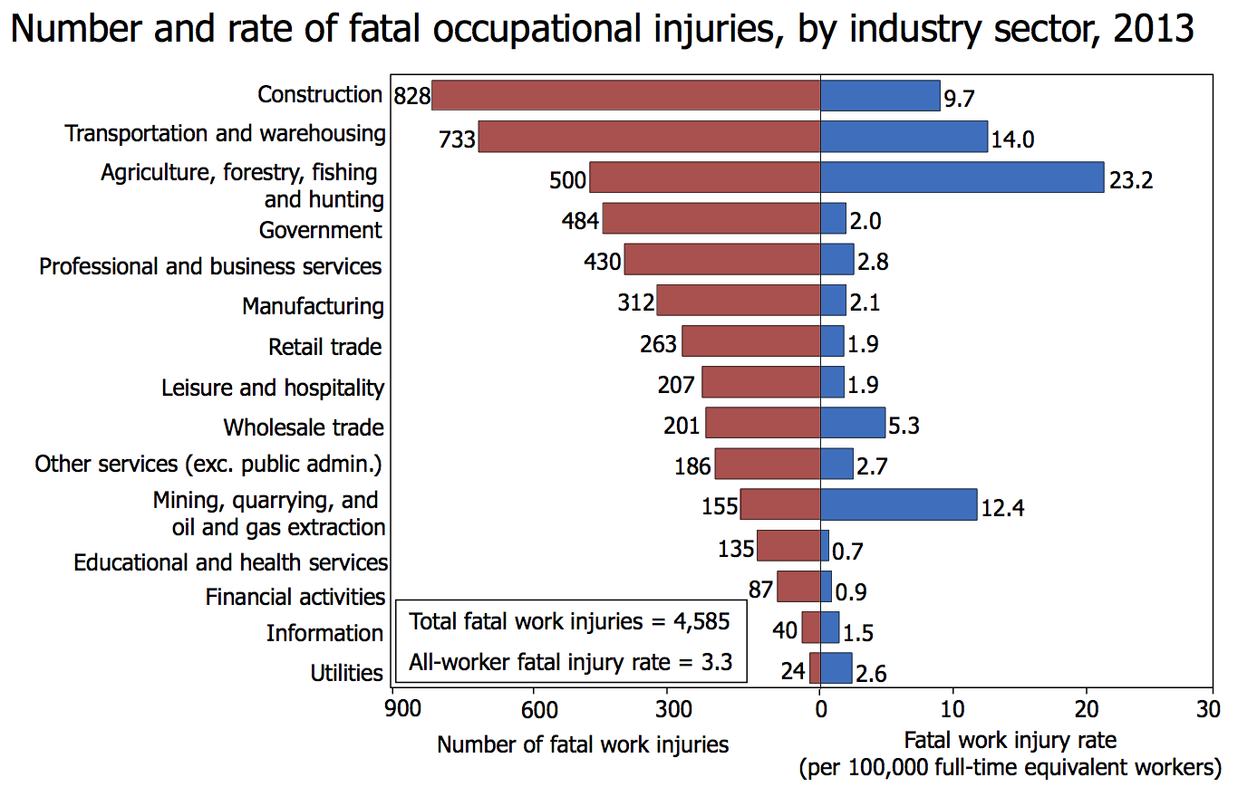 Number and rate of fatal occupational injuries, by industry sector, 2006 in the United States.